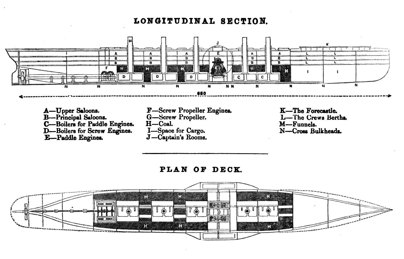 Cross-section and deck plan of the SS Great Eastern